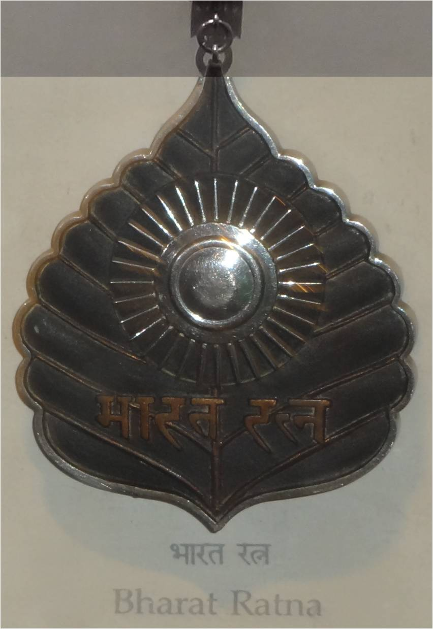 Bharat Ratna received by Indira Gandhi